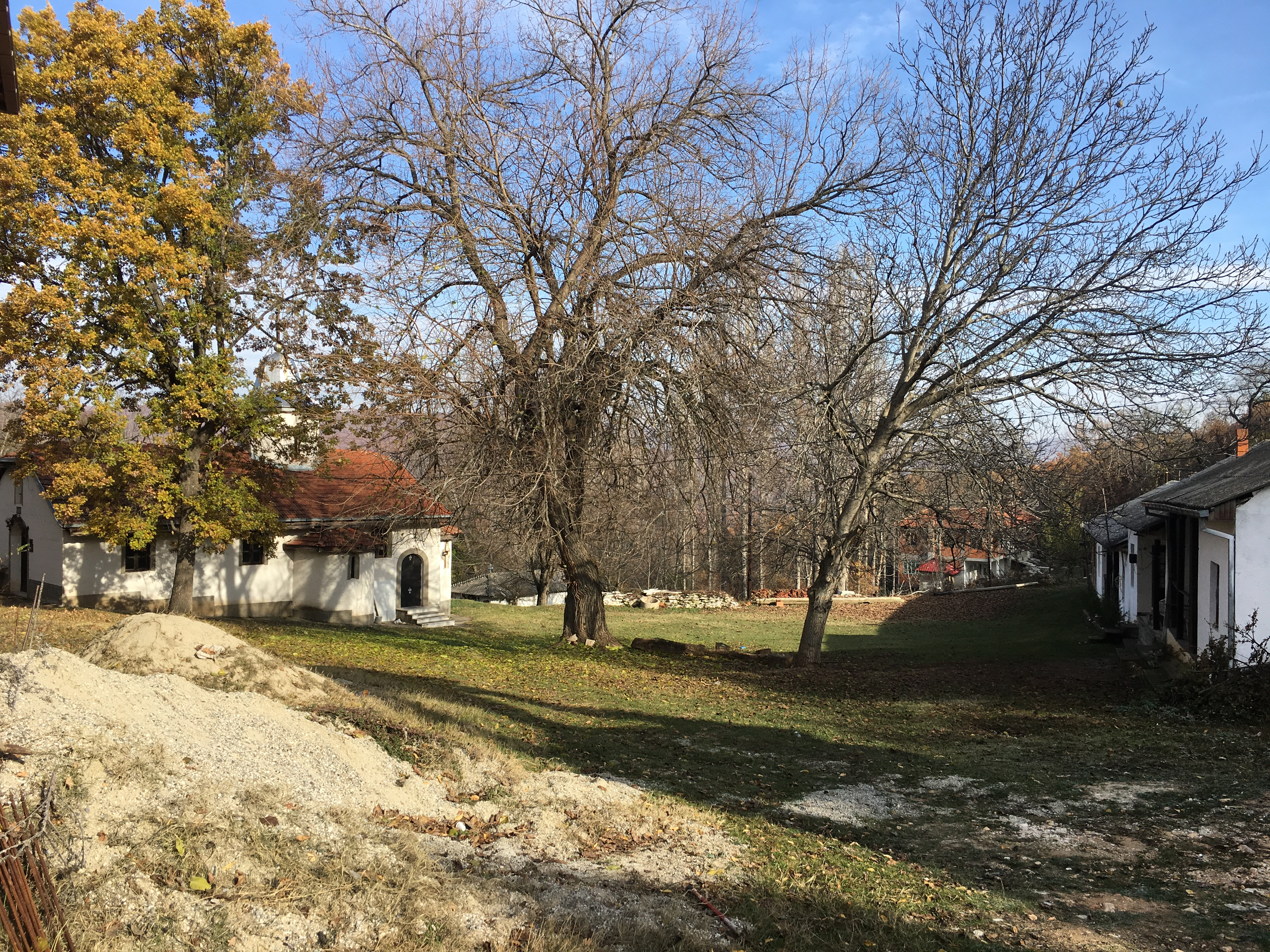 Nikodin Monastery's yard